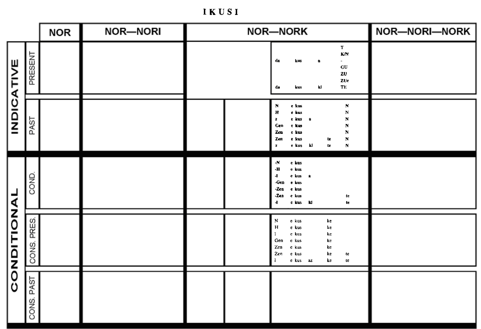 Basque verb